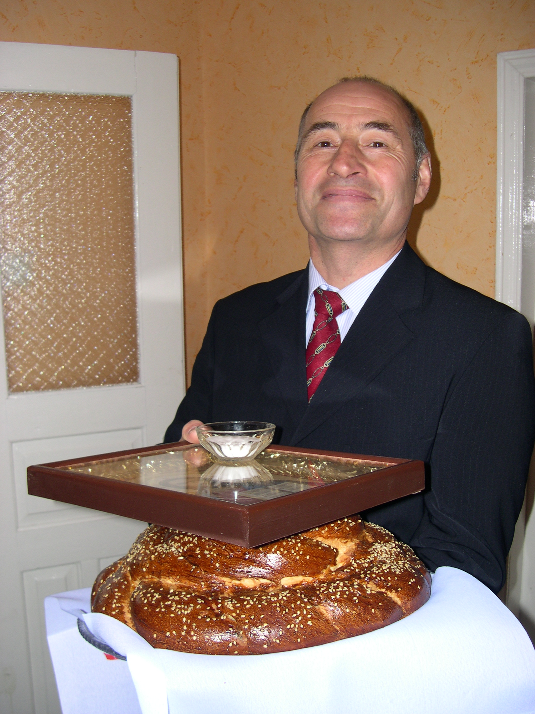 Stas's father presents bread, salt, and an icon